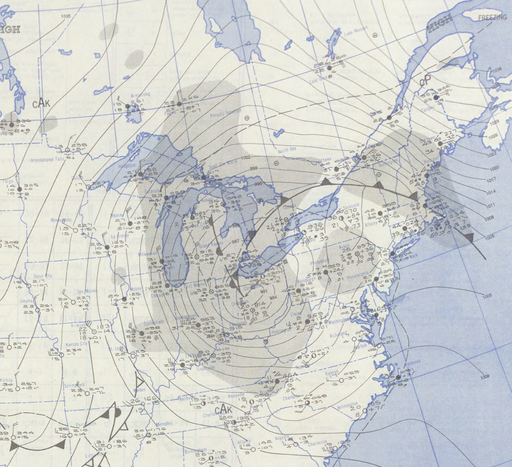 Surface weather analysis of Great Appalachian Storm on 26 November 1950.